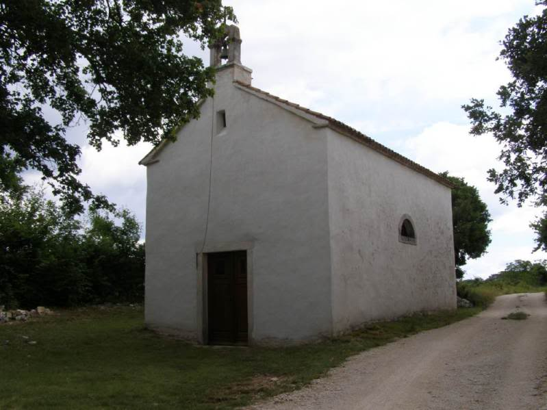 Church in Maružini, Croatia.